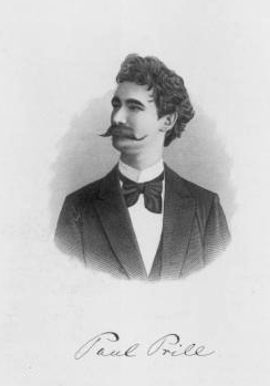 German cellist Paul Prill (1860-1930)